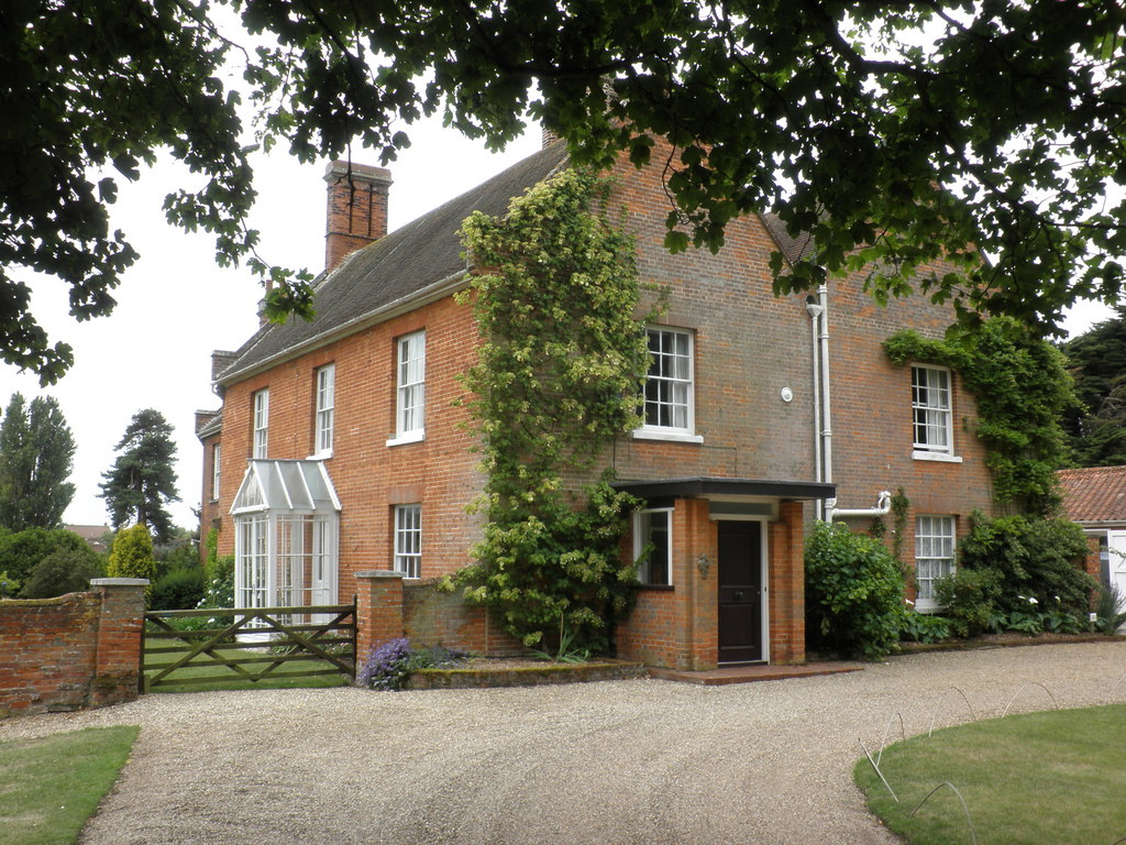 The Red House, Aldeburgh. A Grade II listed building in Aldeburgh, Suffolk. The home of the composer Benjamin Britten and his partner Peter Pears from 1957 to Britten's death in 1976